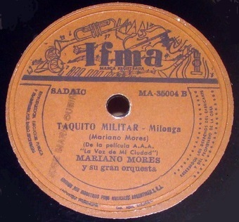 First record by Mariano Mores. "Taquito militar". IFMA (Mercurio) MA 350004. Date ca. 1953. Argentina